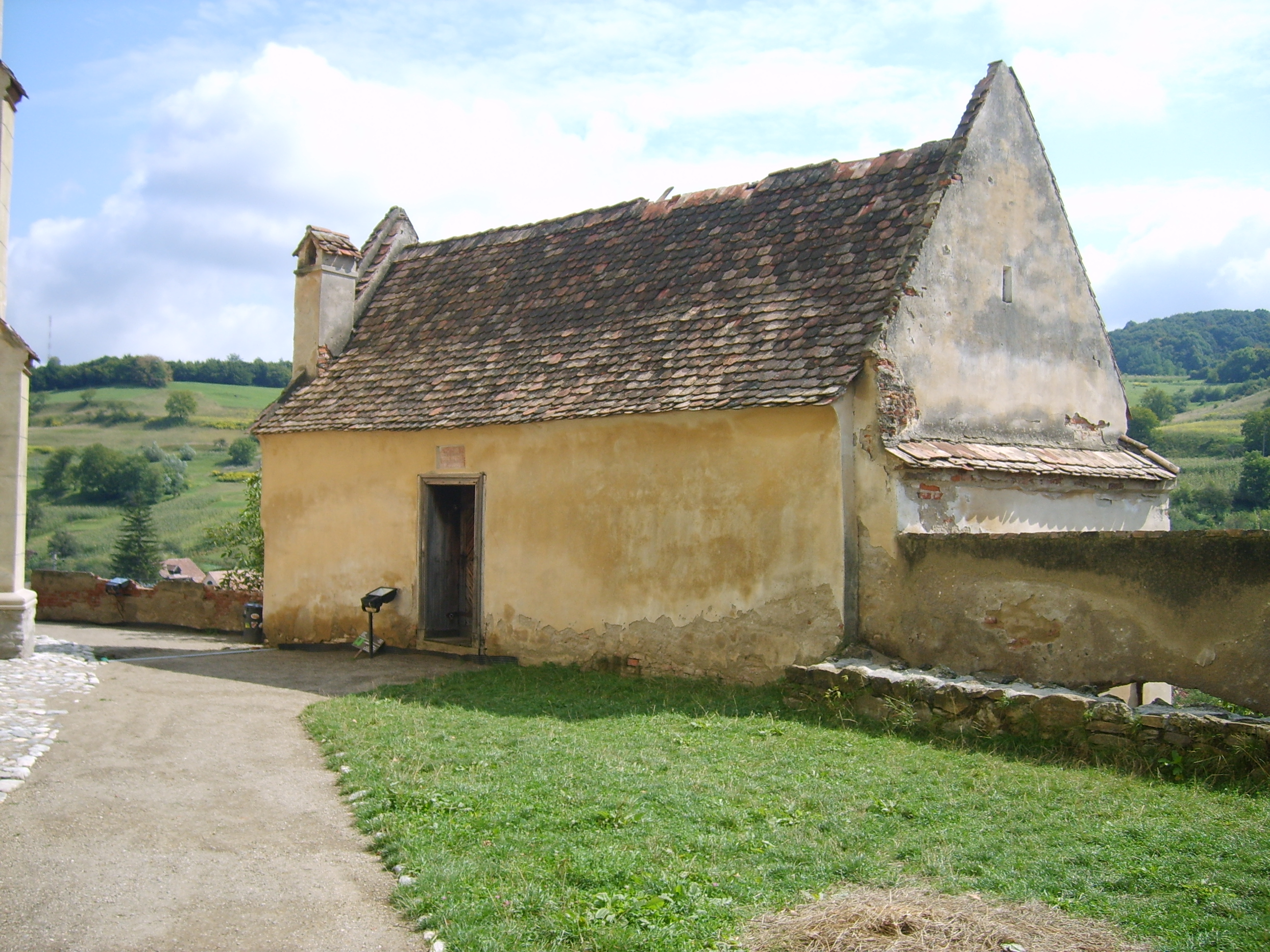 This small building stands next to the church of Biertan (Birthälm). There was the habit to close there for two weeks the couples that wanted to divorce. Inside there was only a bed and the necessary to eat. It actually worked because in 400 years only one couple eventually decided to break up